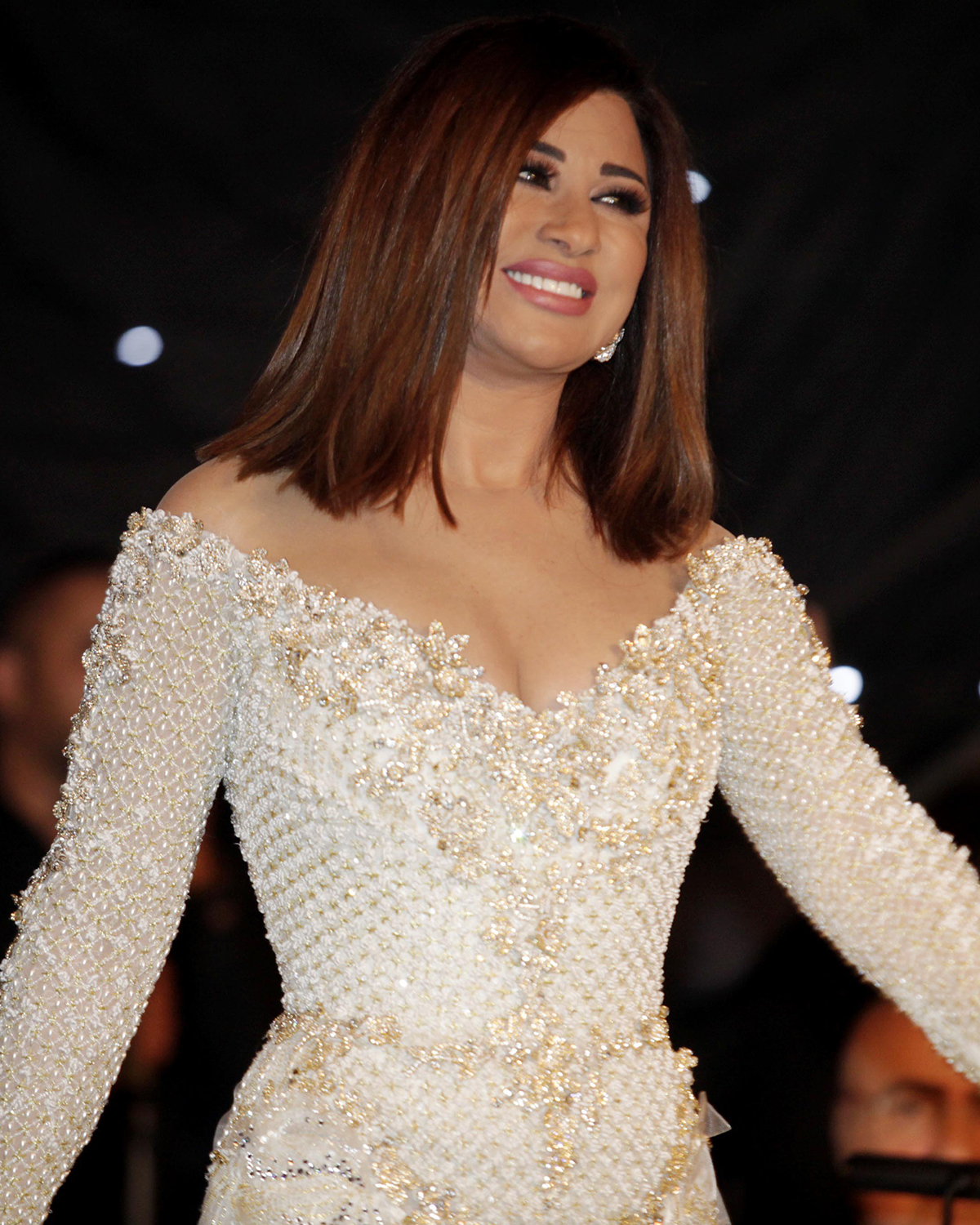 Najwa Karam, New Year's Eve